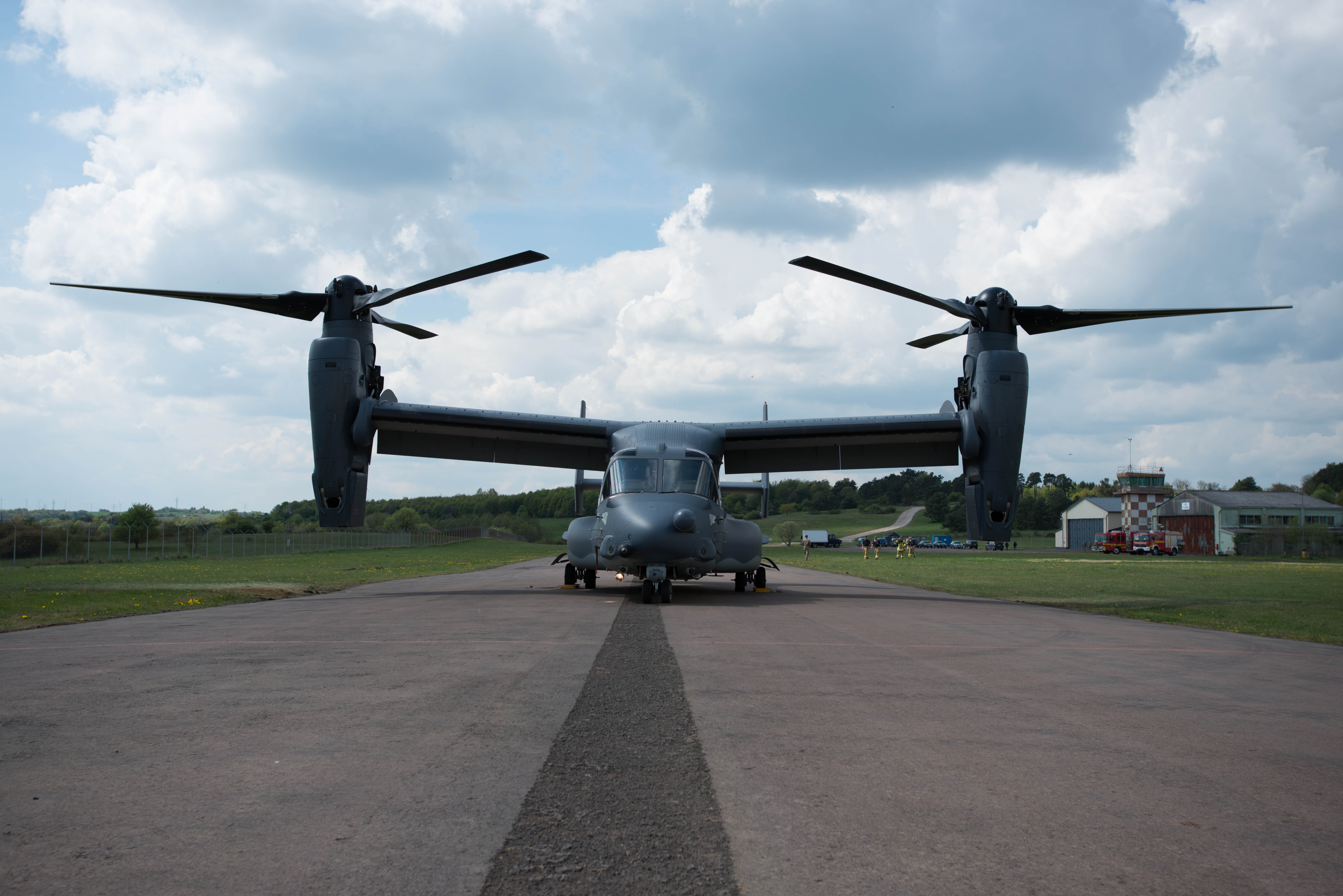 Opsreys in Baumholder at Baumholder Military Training Area, April 23, 2014. (U.S.Army photo by Visual Information Specialist Erich Backes/ Released)